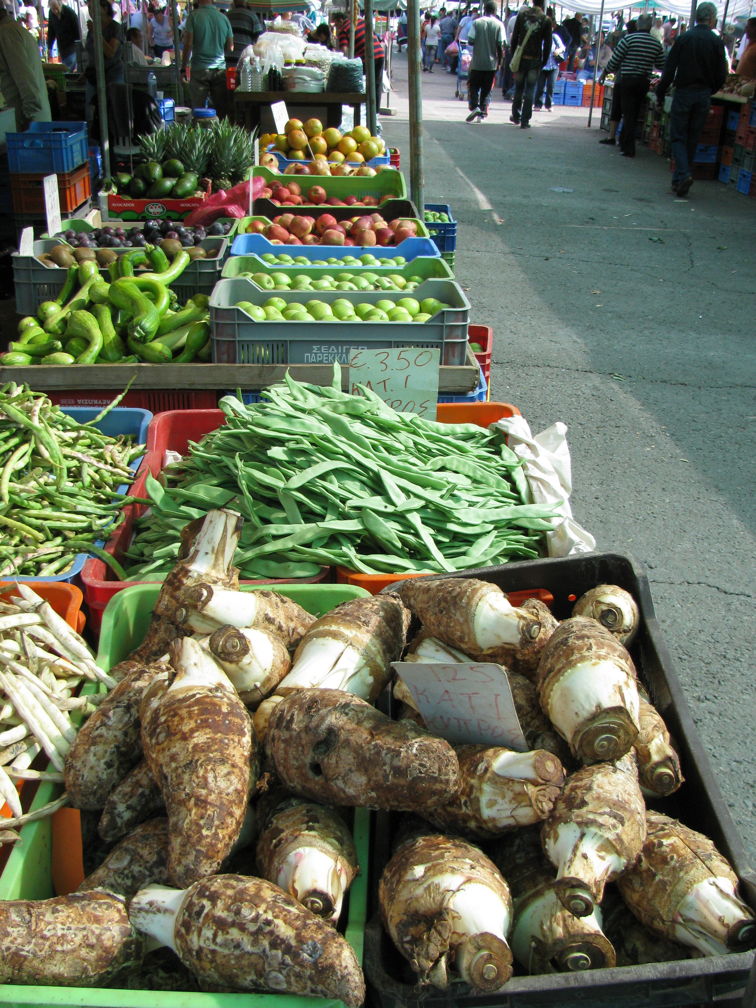 Taro is eaten quite a bit in Cyprus